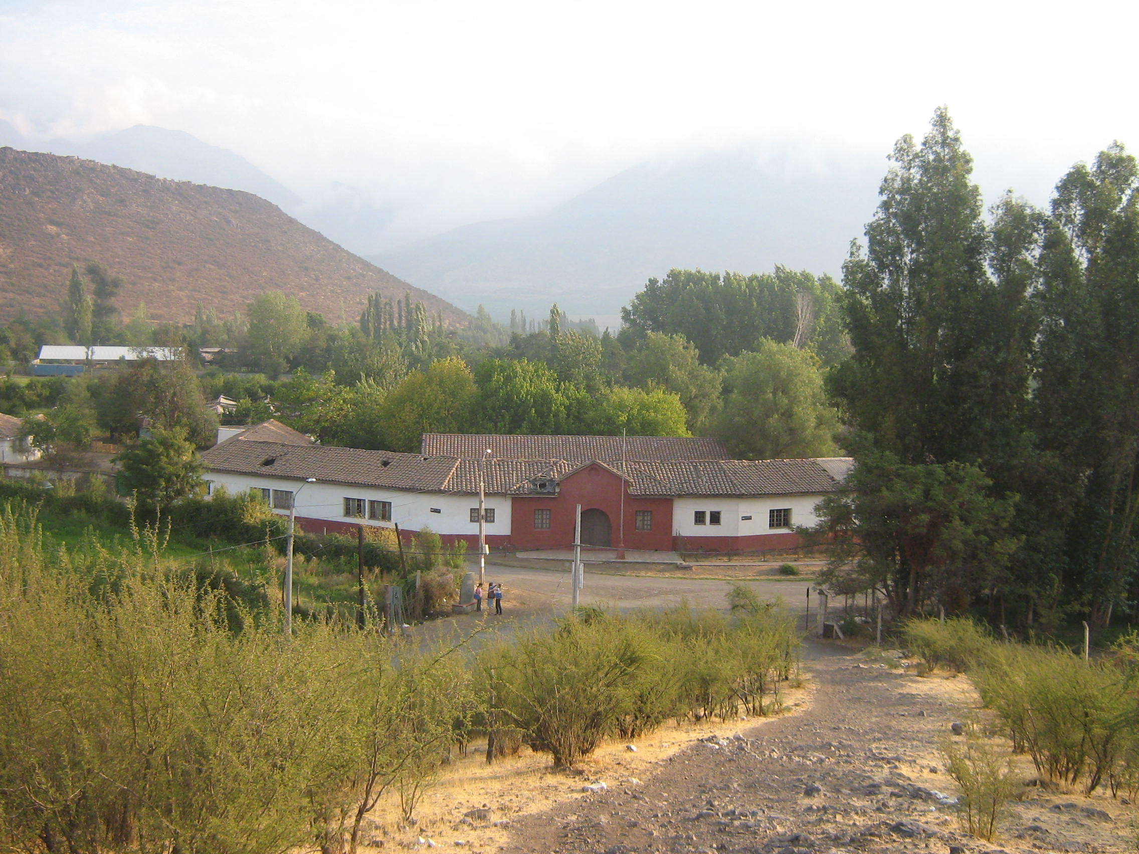 Pedro Aguirre Cerda house, Pocuro Calle Larga-Los Andes